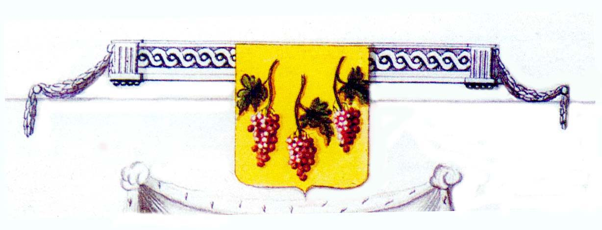 Coat of Arms of Izium from tha map of town (1787)